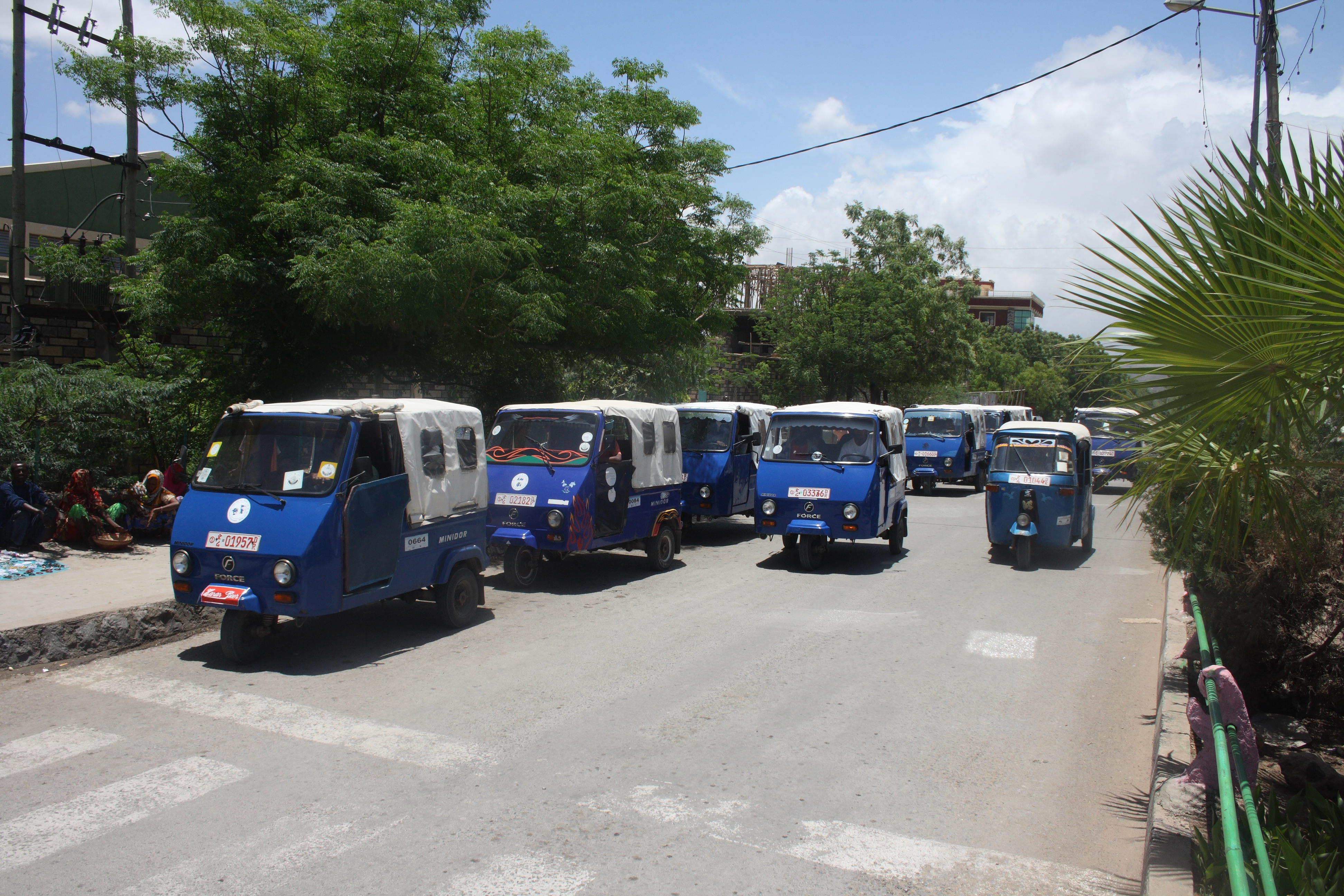 Three wheeled Taxis waiting for passengers at the roadside in Dire Dawa, Ethiopia